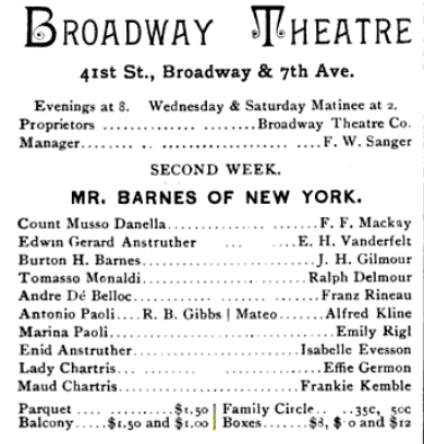 Advertisement for play 'Mr. Barnes of New York' at the Broadway Theatre (41st) in New York City, The Theatre, Advertiser supplement, p. 5 (October 29, 1888)